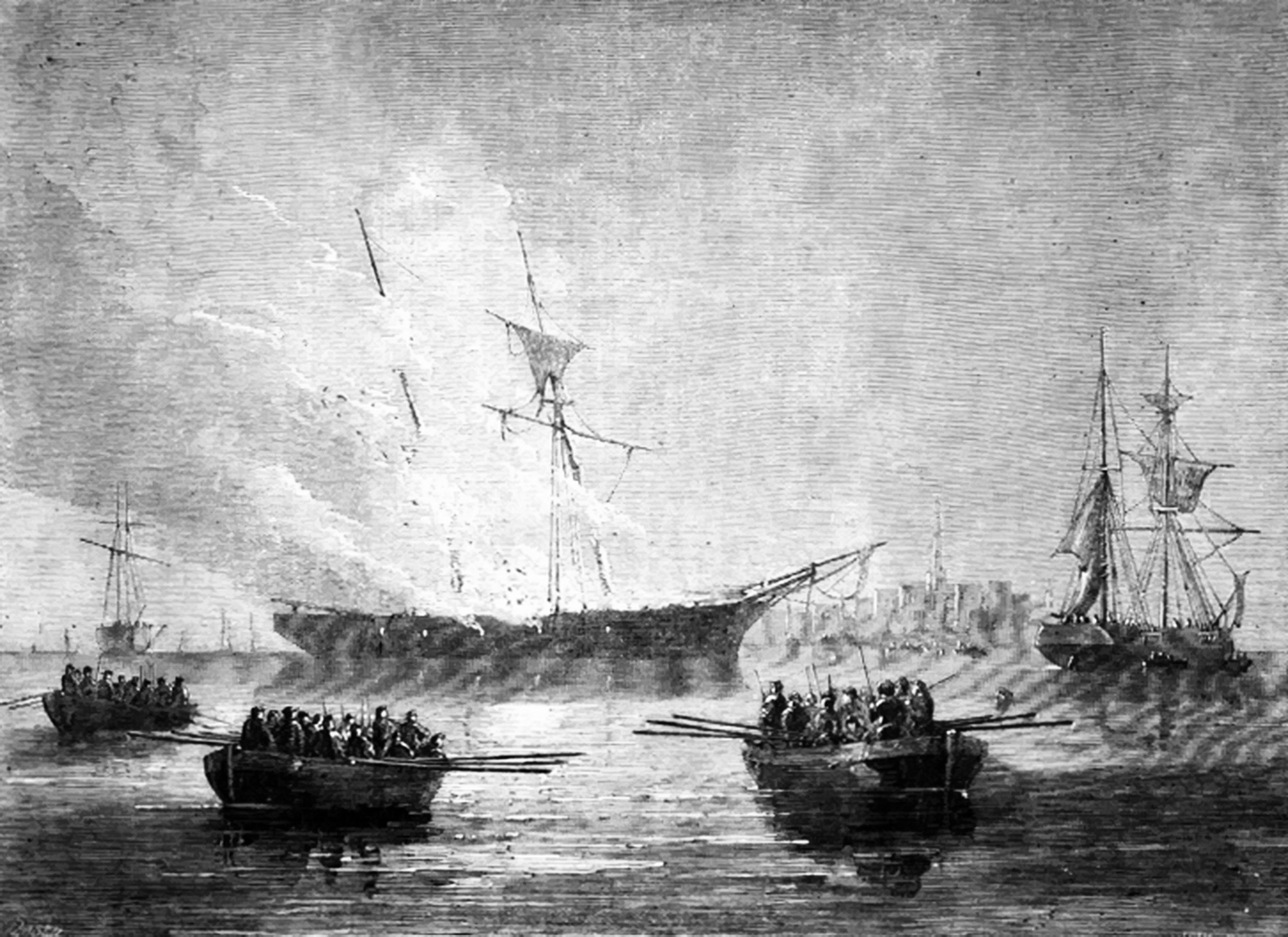 The title is the same as the image caption above and in "Cassell's Illustrated History of England, Volume 5". The number shown is the page number. Follow image link to the full book vol.5.